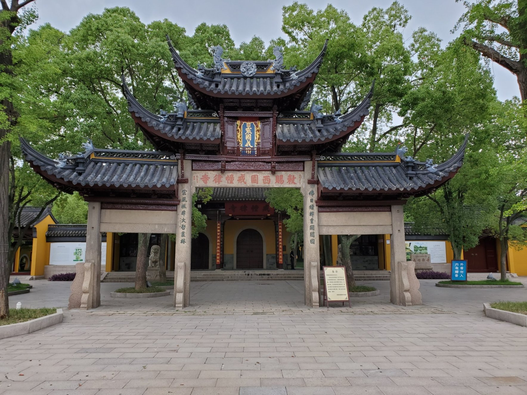 Xiyuan Temple when viewed upon on entering from the front